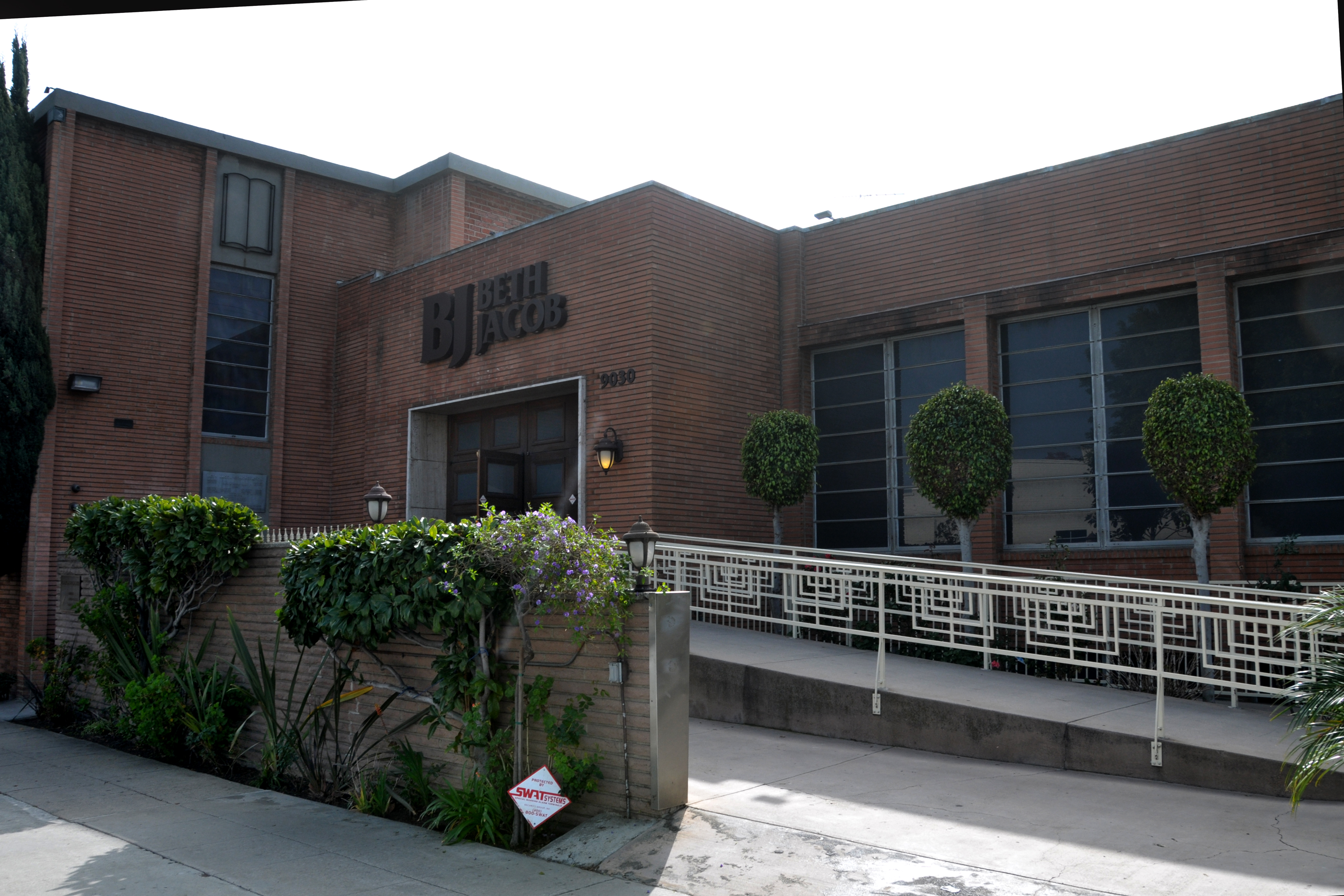 Beth Jacob Congregation building in Beverly Hills, California on February 19, 2015 - Photo by Glenn Francis of